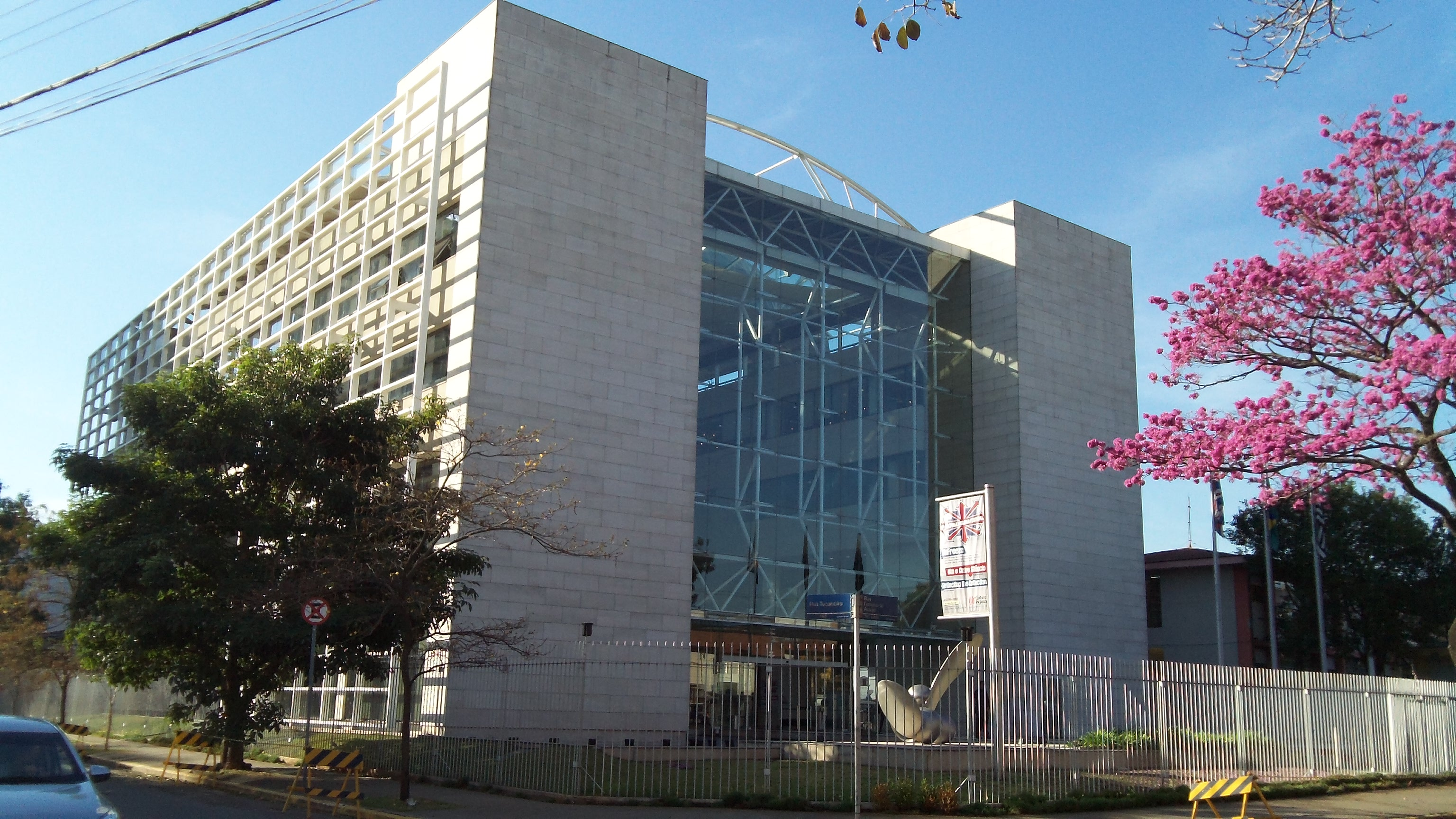 Centro Cultural Britânico, that also homes the British Consulate General, São Paulo